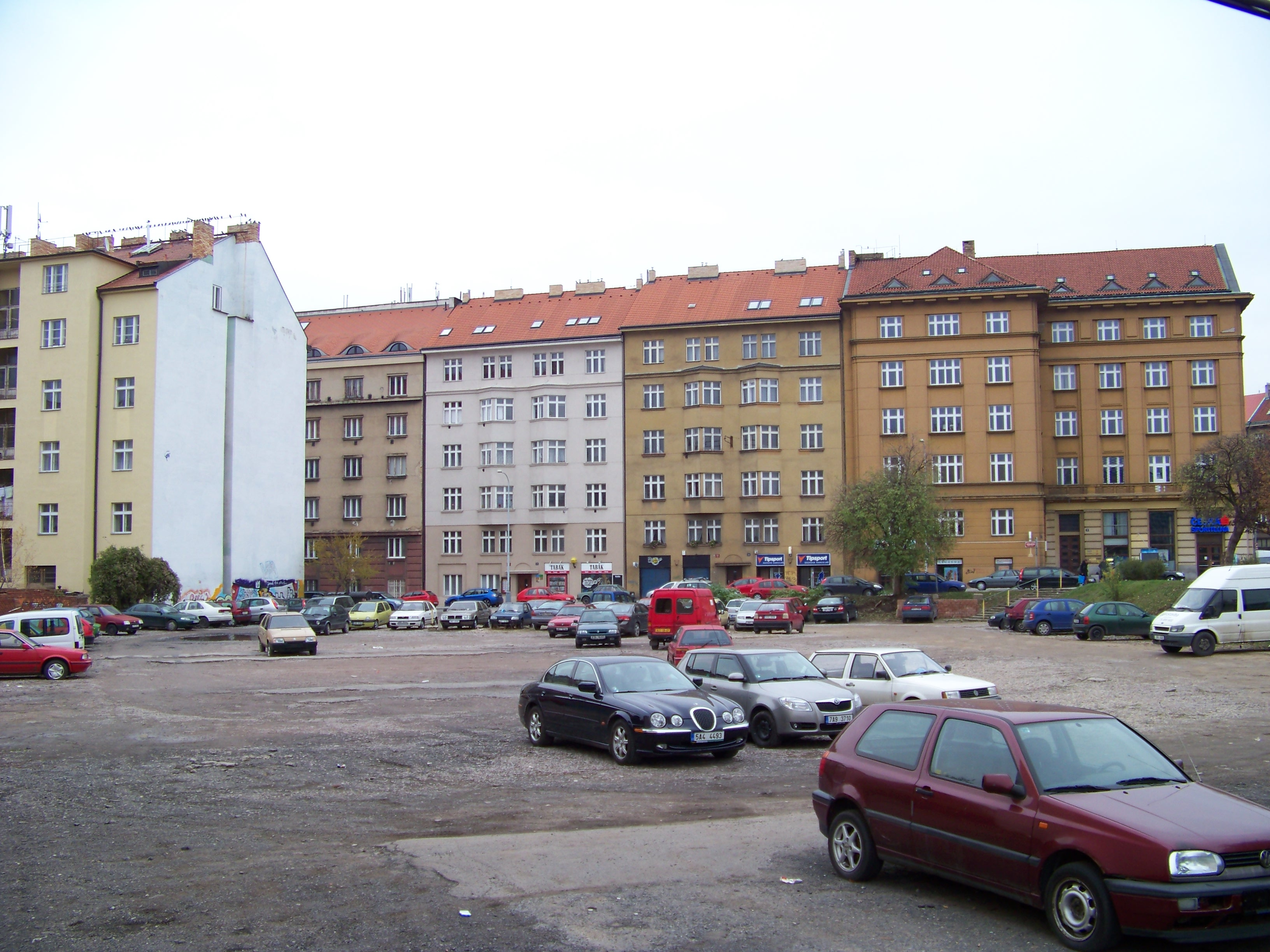 Bubeneč, Prague, Vítězné Square, the Czech Republic. Car park near the Verdunská street. - Google Maps - Google Earth